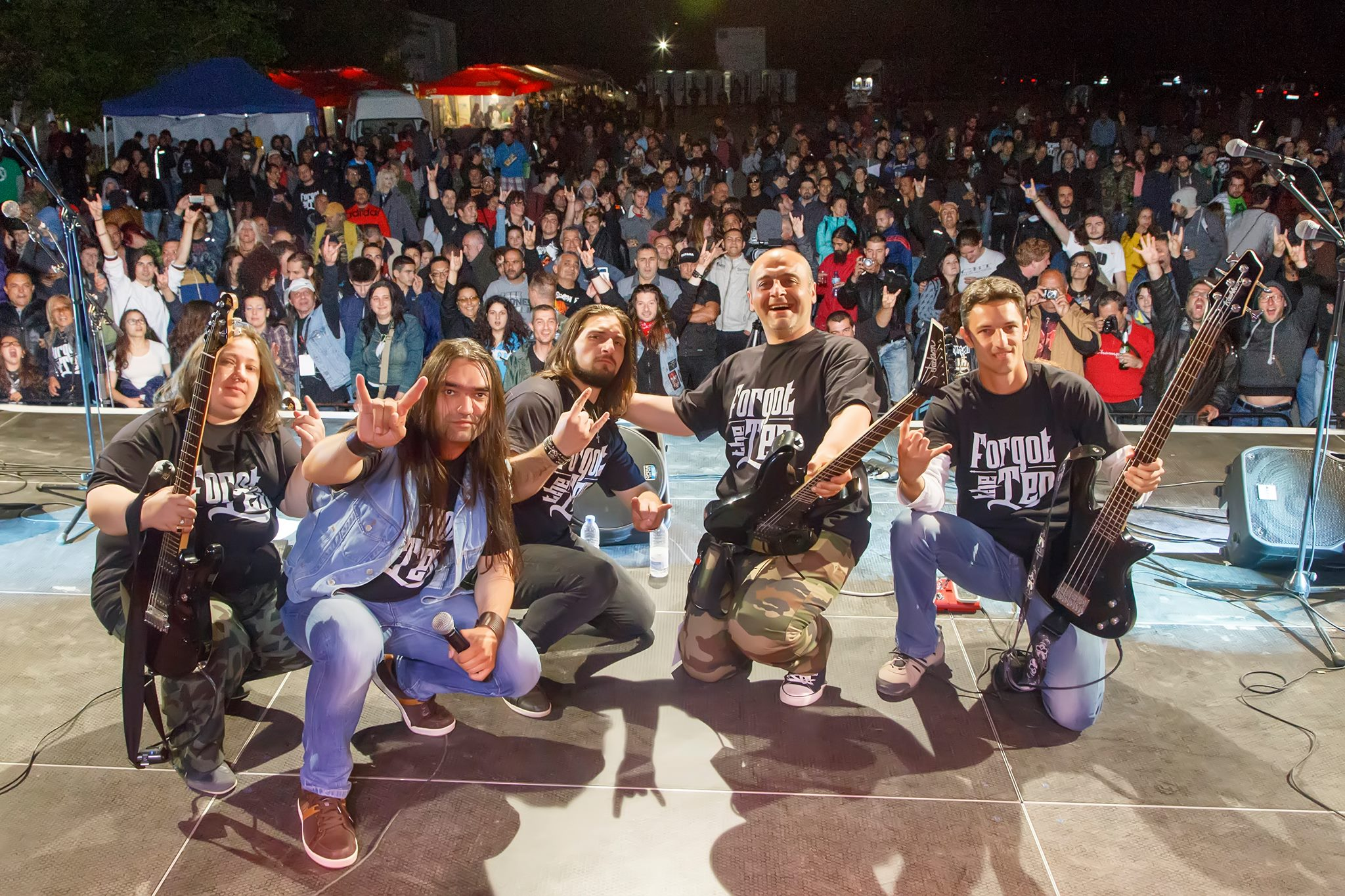 Forgot the Ten Shumen rock Fest 2017